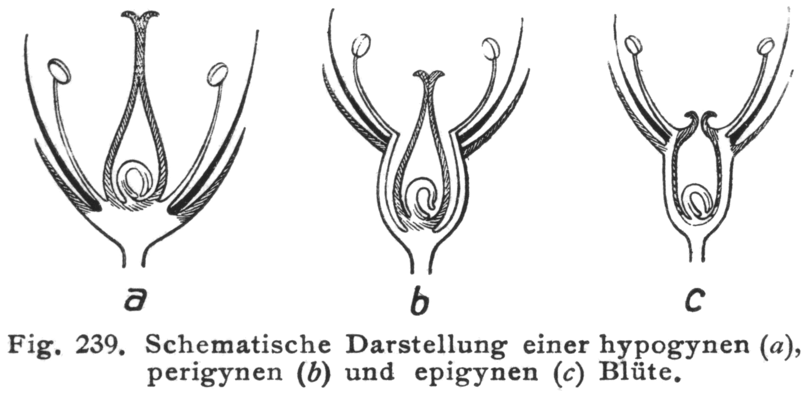 Figure 239 from Hegi, G.: Illustrierte Flora von Mittel-Europa, p. 128. Caption: Fig. 239 Schematic representation of a hypogynous (a), a perigynous (b) and an epigynous flower (c)..